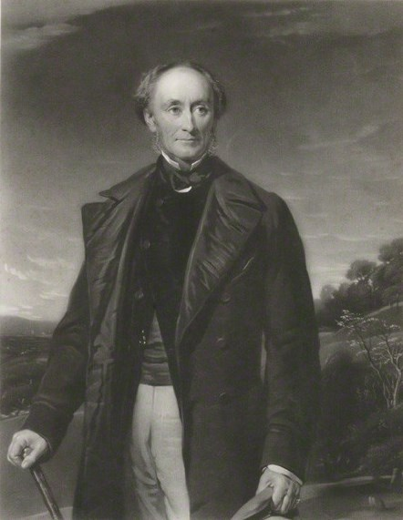 Cospatrick Alexander Home, 11th Earl of Home by Henry Cousins, after George Richmond mezzotint, 1862 22 7/8 in. x 16 1/4 in. (580 mm x 414 mm) paper size Purchased with help from the Whitin Fund, 1955. NPG D35940